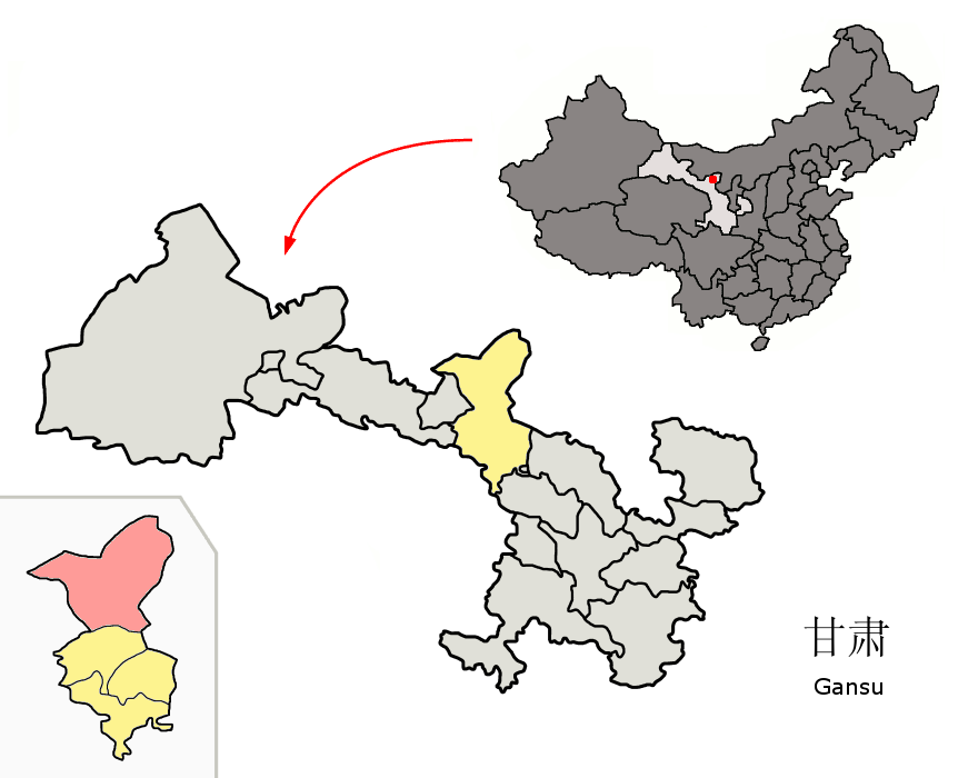 Location of Minqin County (pink) within Wuwei Prefecture (yellow) and Gansu province of China Map drawn in september 2007 using various sources, mainly : Gansu province administrative regions GIS data: 1:1M, County level, 1990 Gansu Counties map from